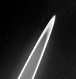 Original Caption Released with Image: The rings of Jupiter proved to be unexpectedly bright when seen with the Sun nearly behind them. Strong forward scattering of sunlight is characteristic of small particles. This view was obtained by Voyager 2 on July 10 from a perspective inside the shadow of Jupiter. The distance of the spacecraft from the rings was about 1.5 million kilometers. Although the resolution has been degraded by camera motion during the time exposures, these images reveal the rings have some radial structure.